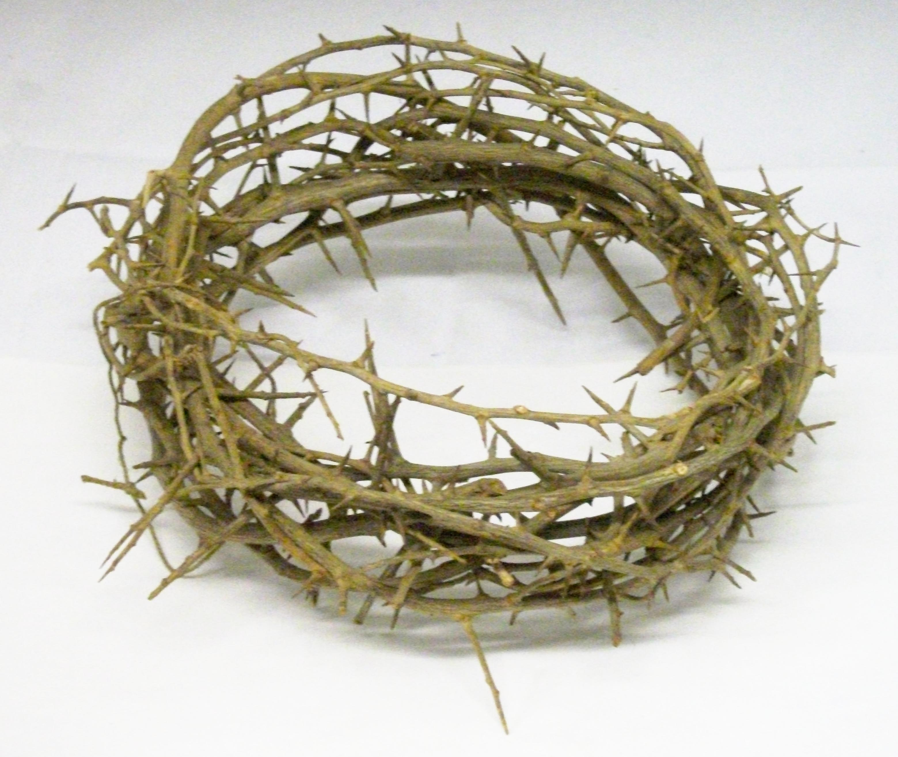 A crown of thorns in the stores of Bedford Museum.